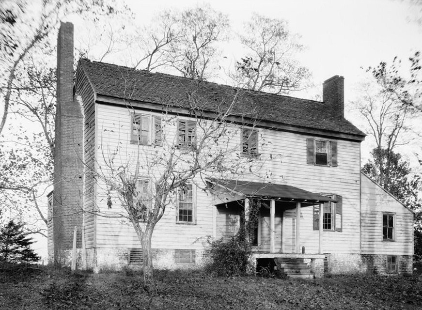 Mount Verde, State Route 660, Center Cross vicinity (Essex County, Virginia) cropped This file comes from the Historic American Buildings Survey (HABS), Historic American Engineering Record (HAER) or Historic American Landscapes Survey (HALS). These are programs of the National Park Service established for the purpose of documenting historic places. Records consist of measured drawings, archival photographs, and written reports. When reusing please credit: Library of Congress, Prints & Photographs Division, VA,29-DUNV.V,3-1 This tag does not indicate the copyright status of the attached work. A normal copyright tag is still required. See Commons:Licensing for more information. This work is in the public domain in the United States because it is a work prepared by an officer or employee of the United States Government as part of that person’s official duties under the terms of Title 17, Chapter 1, Section 105 of the US Code. See Copyright. Note: This only applies to original works of the Federal Government and not to the work of any individual U.S. state, territory, commonwealth, county, municipality, or any other subdivision. This template also does not apply to postage stamp designs published by the United States Postal Service since 1978. (See § 313.6(C)(1) of Compendium of U.S. Copyright Office Practices). It also does not apply to certain US coins; see The US Mint Terms of Use. This file has been identified as being free of known restrictions under copyright law, including all related and neighboring rights. Object location37° 48′ 23.33″ N, 76° 46′ 06.07″ W